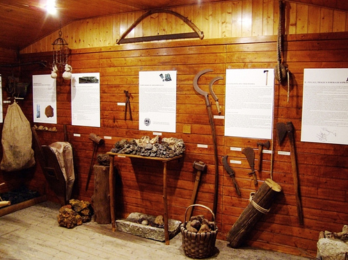 Elba Island